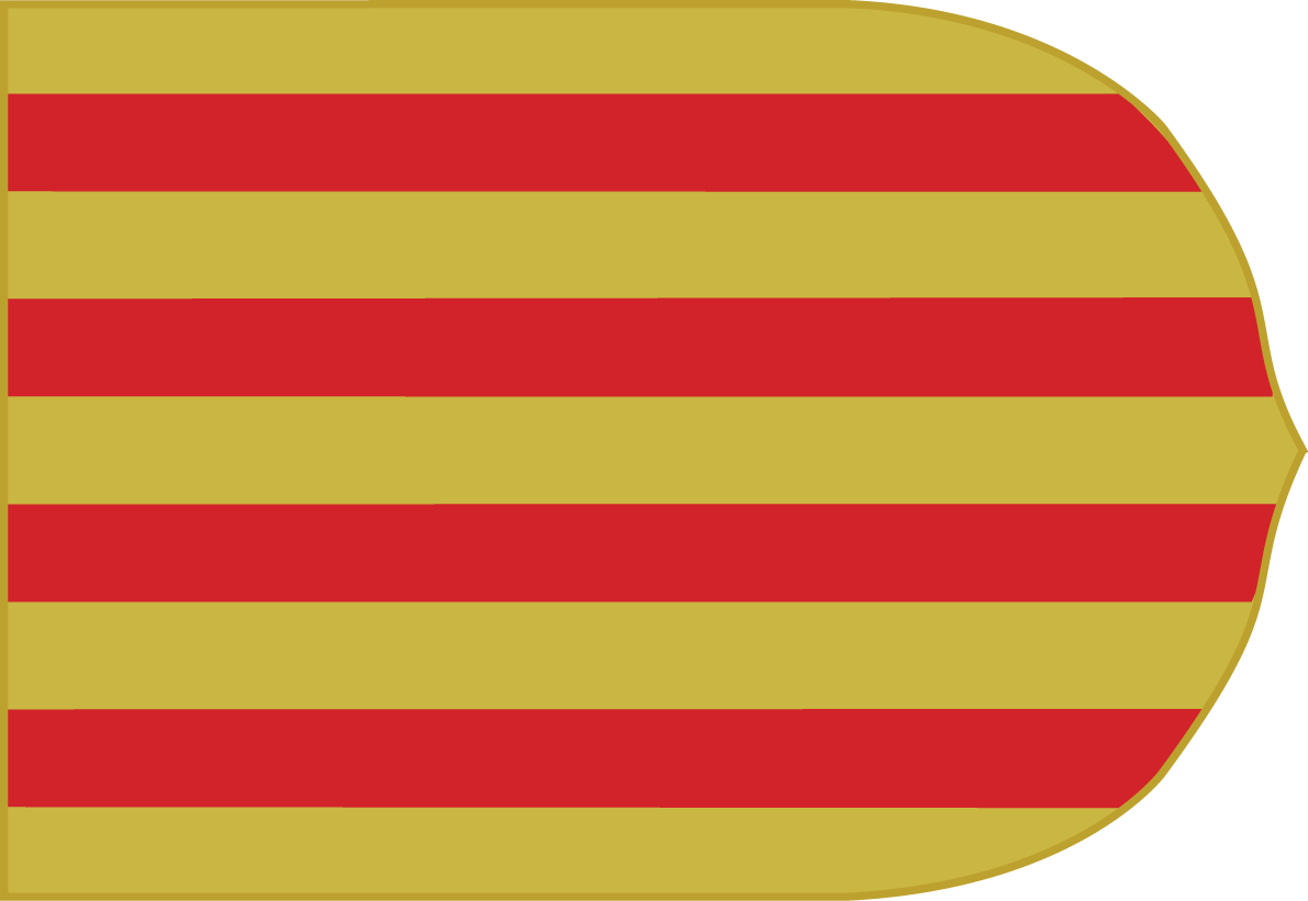 Royal Ensign of Aragon